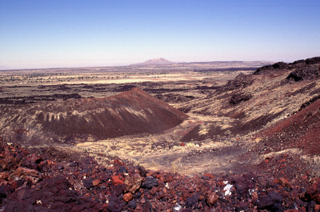 The Black Rock Desert volcanic field — in Millard County, Utah. It consists of a cluster of closely spaced small volcanic fields of Pleistocene-to-Holocene age in the Black Rock and Sevier Deserts. This view shows Utah's youngest known lava flow, the 660-year-old Ice Springs flow, which originated from a series of nested cinder and spatter cones. The rim of Crescent Crater is at the right, with the symmetrical Pocket Crater at the left and Pavant Butte in the distance. This tuff cone erupted through the waters of Pleistocene Lake Bonneville about 16,000 years ago.